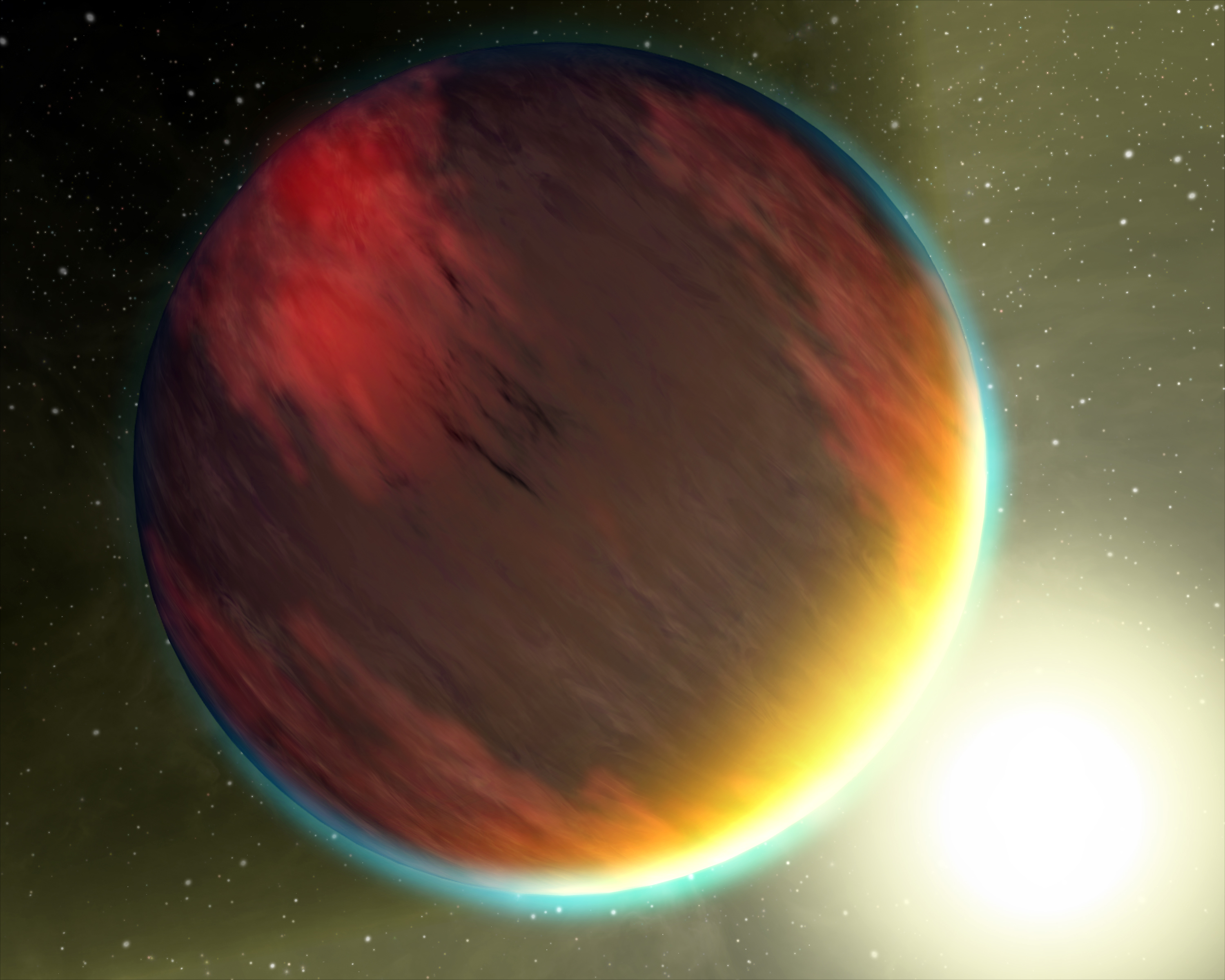 The new finding follows the detection of these same organic molecules in the atmosphere of another hot, giant planet, called HD 189733b, by astronomers using Hubble and Spitzer data. Astronomers can now begin comparing the chemistry and dynamics of these two planets, and search for similar measurements of other candidate exoplanets, advancing toward the goal of being able to characterize planets where life could exist.